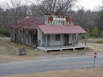 Image of Wagners grocery store in Church Hill, MS, United States